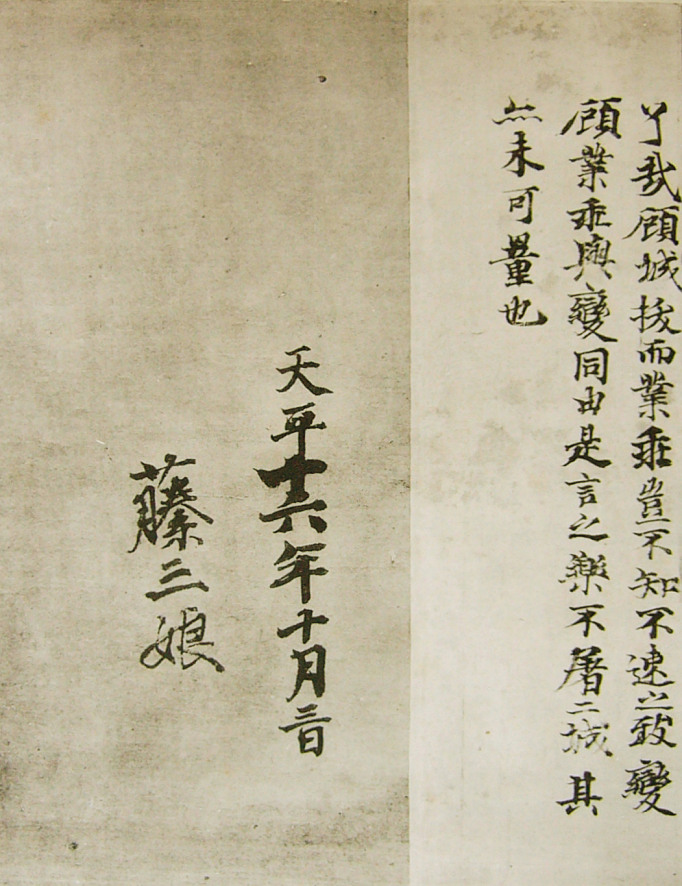 Copy of Gakkiron(End Part and Signature) written by Empress KOMYO after original calligraphy by Wang Xizhi(ACE303?-361). 25.3cm height, Shosoin Collection, Nara, Japan